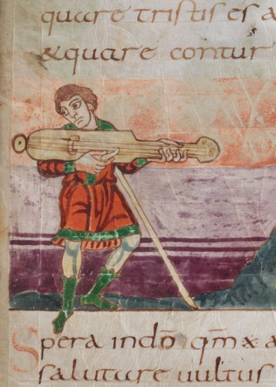 Photograph of medieval artwork. This illustration from the Stuttgart psalter, a Carolingian illuminated manuscript from the 9th century (c. 830) shows a plucked string instrument.